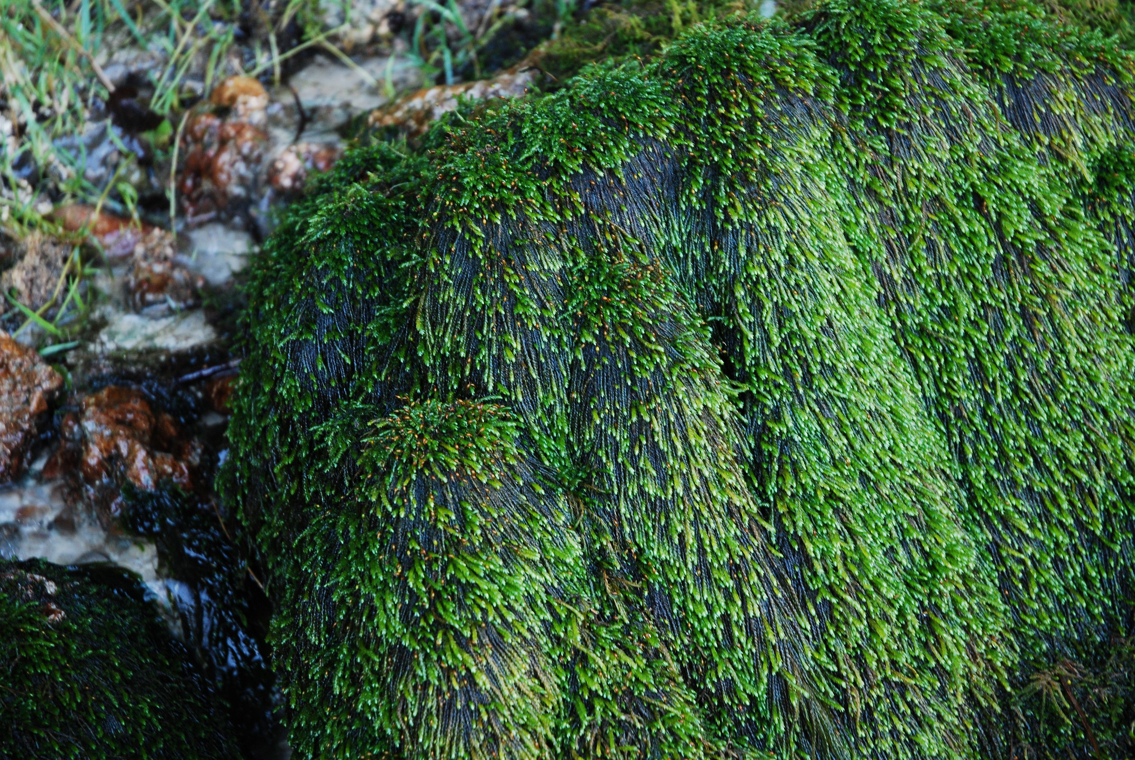 Brachythecium rivulare, Rinnende Mauer, Upper Austria, Austria